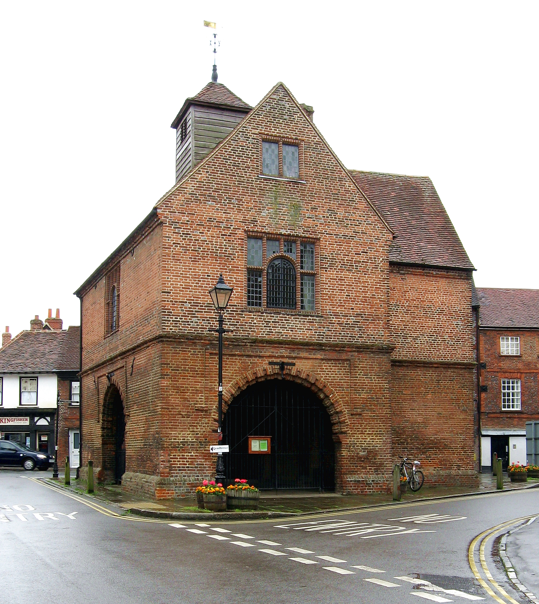 Recent (2007) picture of Watlington Town Hall (ex Boys' Grammar School).